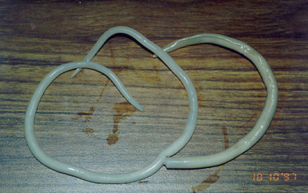 Ascaris lumbricoides adult worm